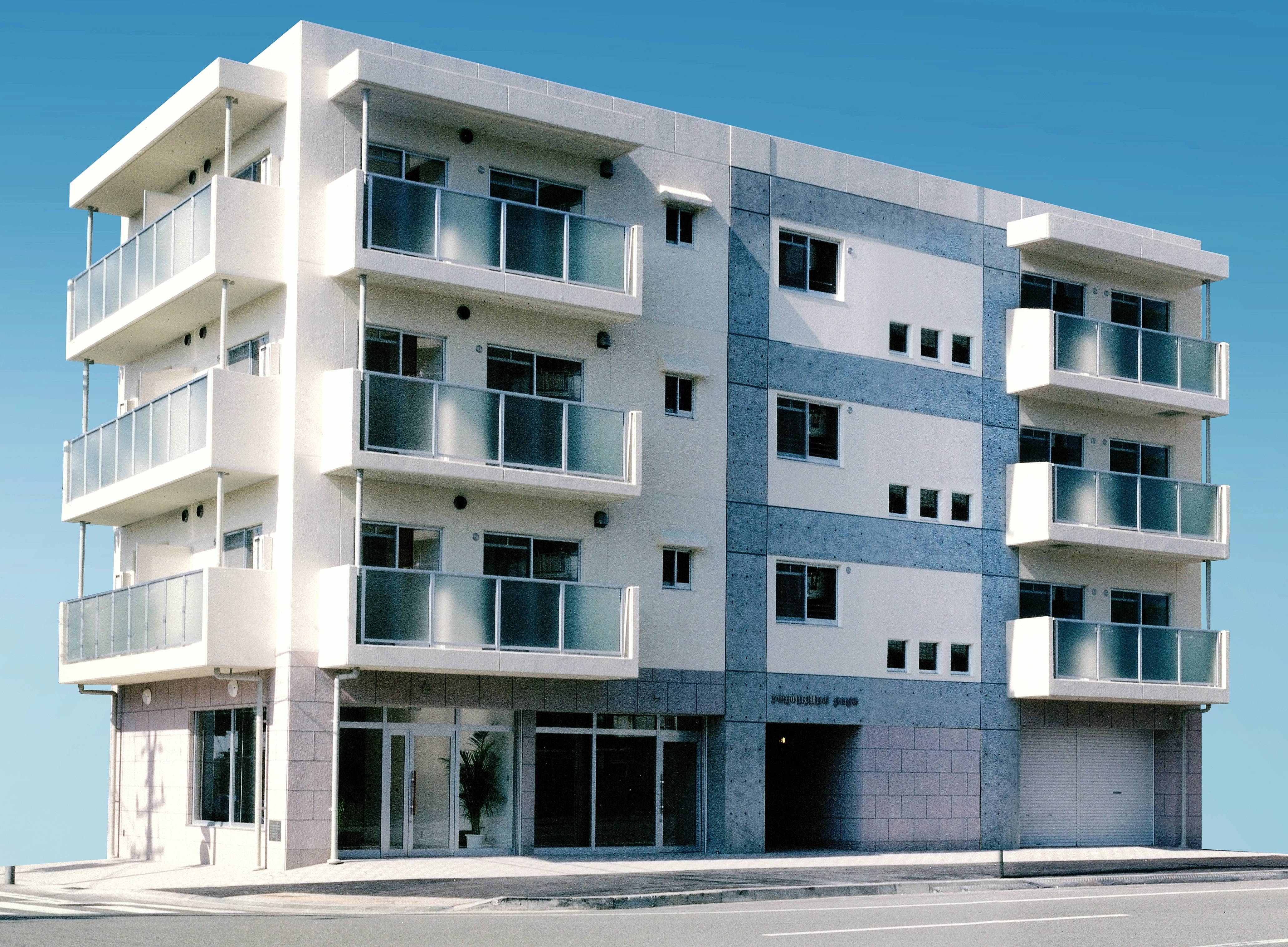 Schoenburg Kobe Building (Kobe Medi-care Co.Ltd)